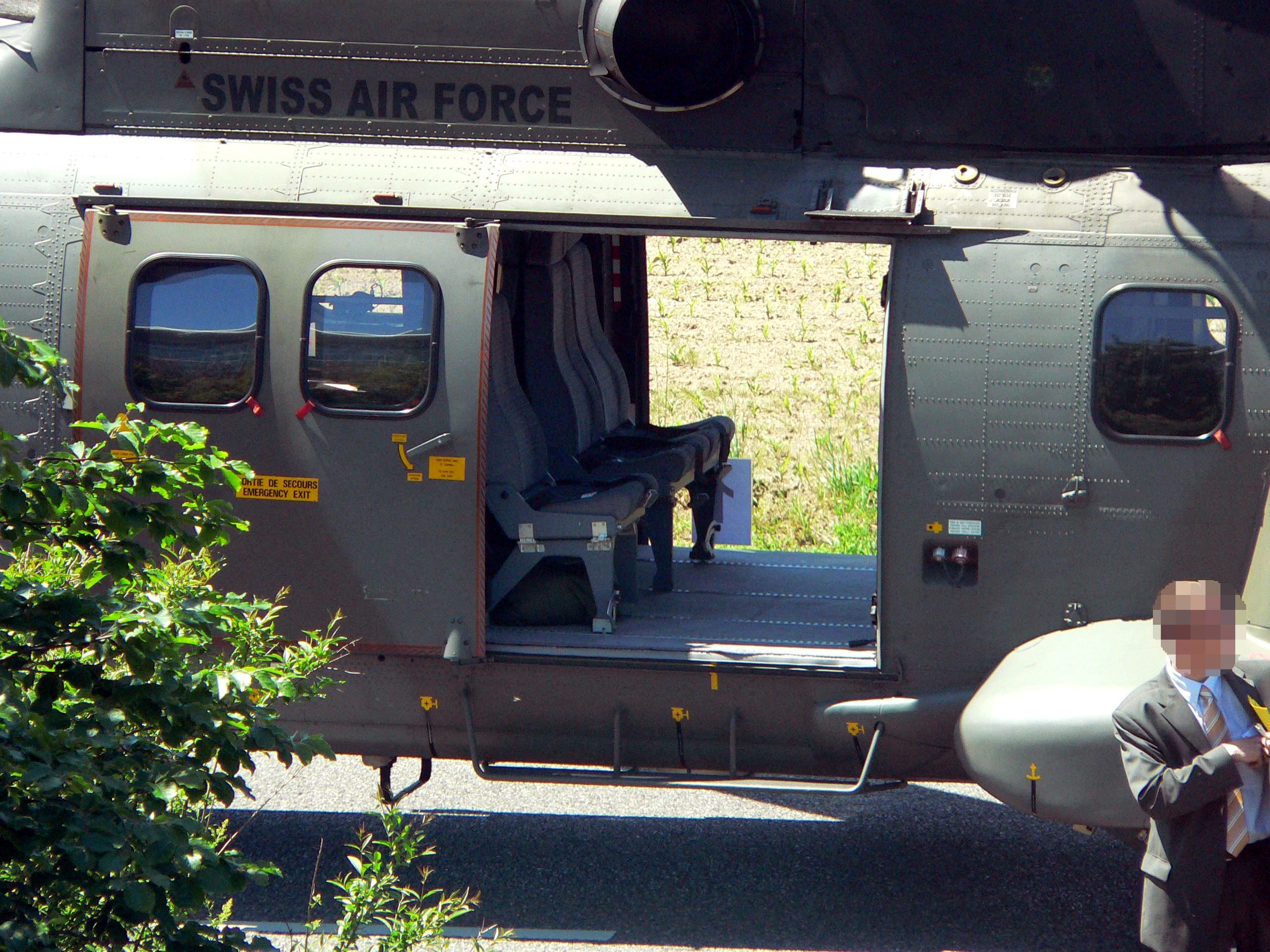 Super Puma helicopter of the Swiss Army at the EPFL during a visit by Avul Pakir Jainulabdeen Abdul Kalam, President of India, 26th of May 2005. Photograph by Rama